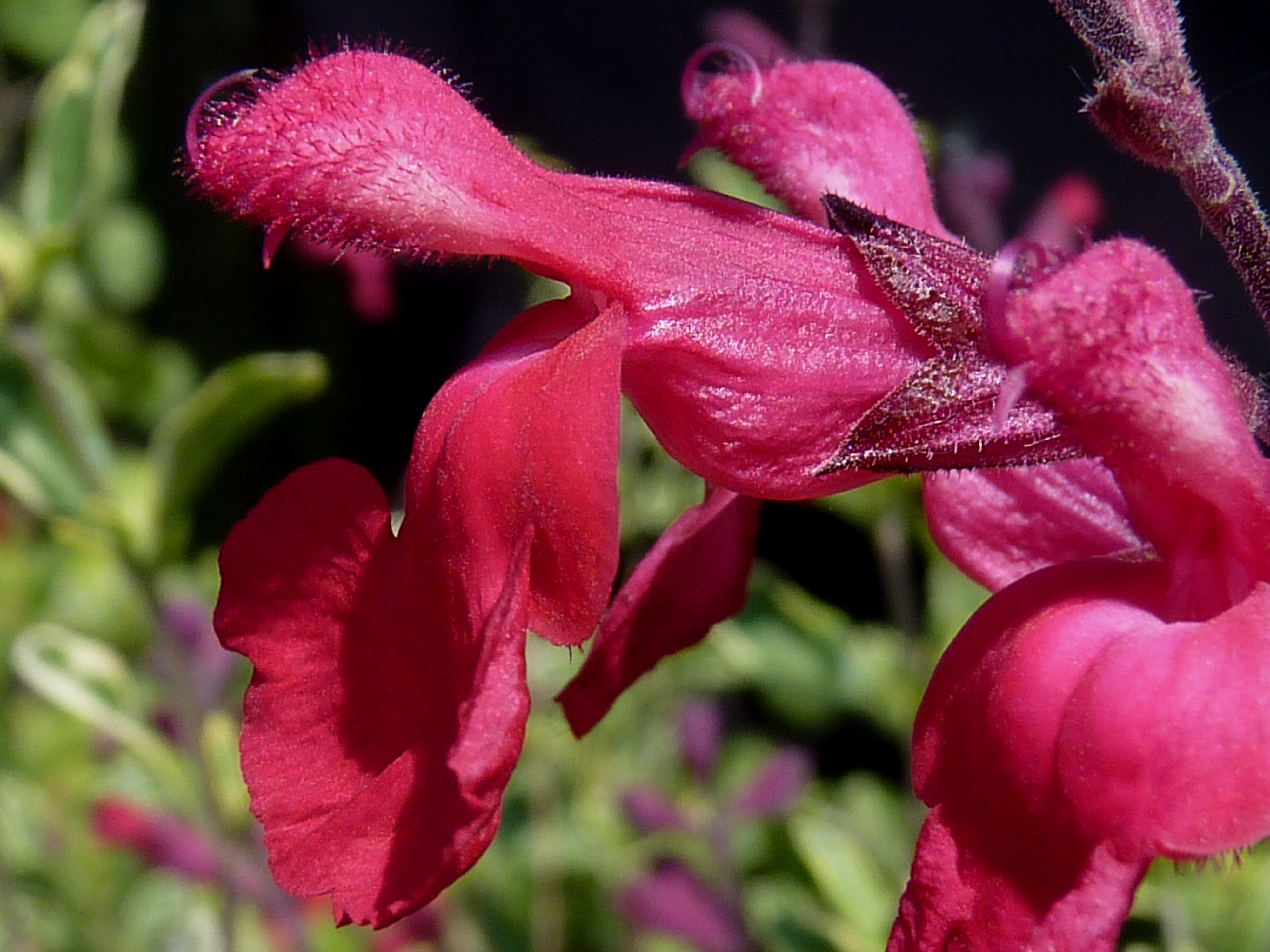 Salvia greggii 'Desert Blaze', picture taken in Belgium.